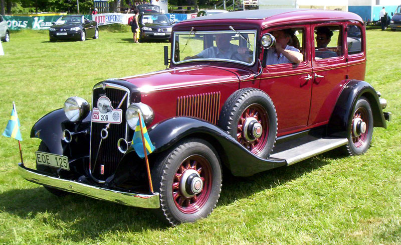 Volvo PV659 Sedan 1935